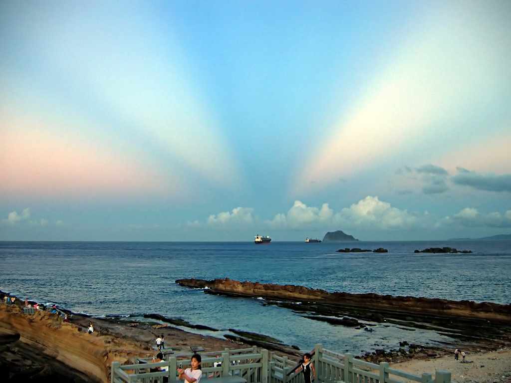 The scene of anticrepuscular ray in Ye-Liou,Taiwan.